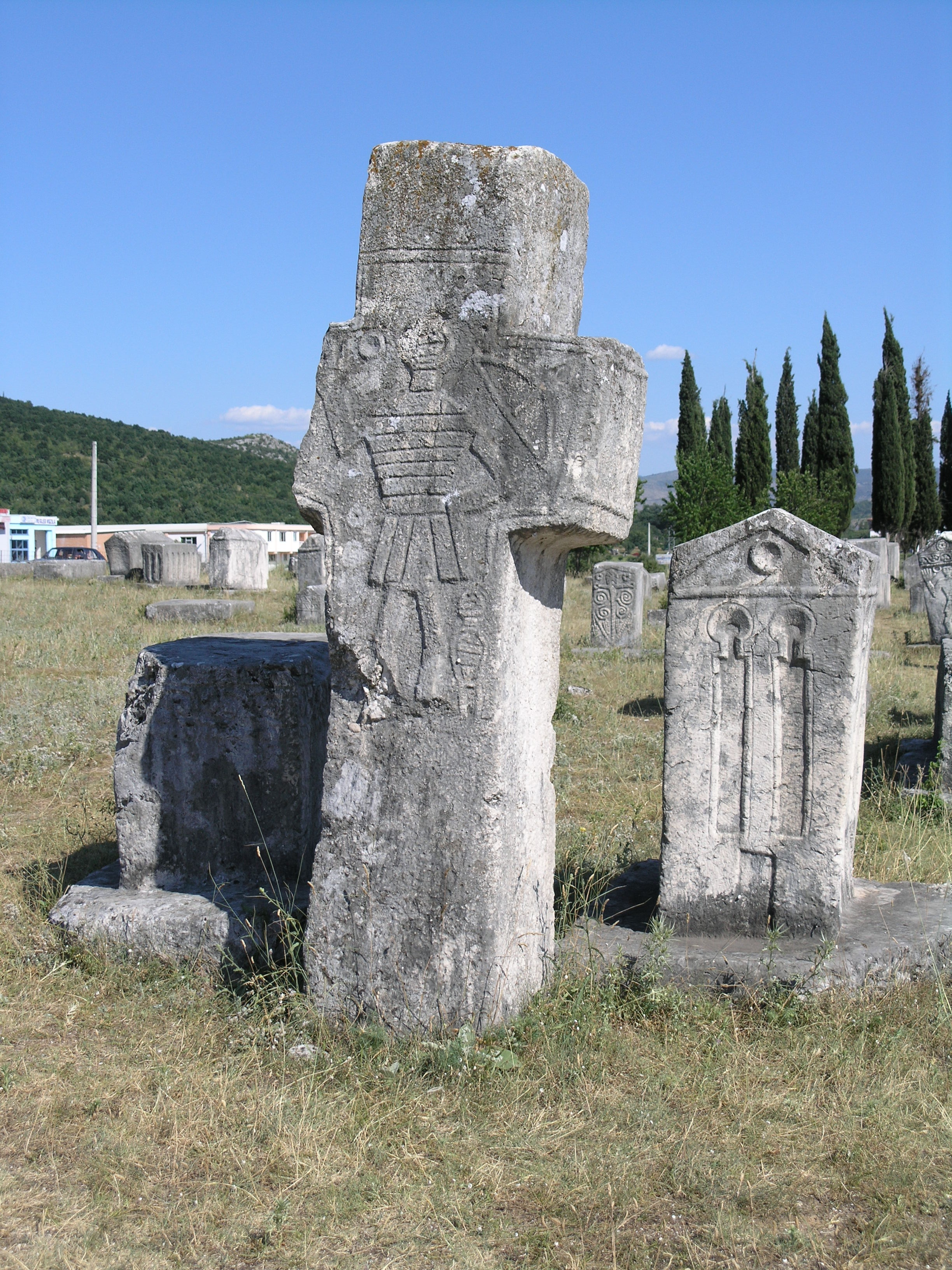 Bosnia and Herzegovina, Radimlja necropolis